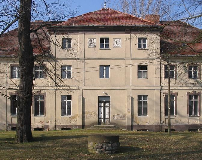 Manor house, built around 1800, in Löwenbruch. The village Löwenbruch is a part of the town Ludwigsfelde in the district Teltow-Fläming, state Brandenburg, Germany.